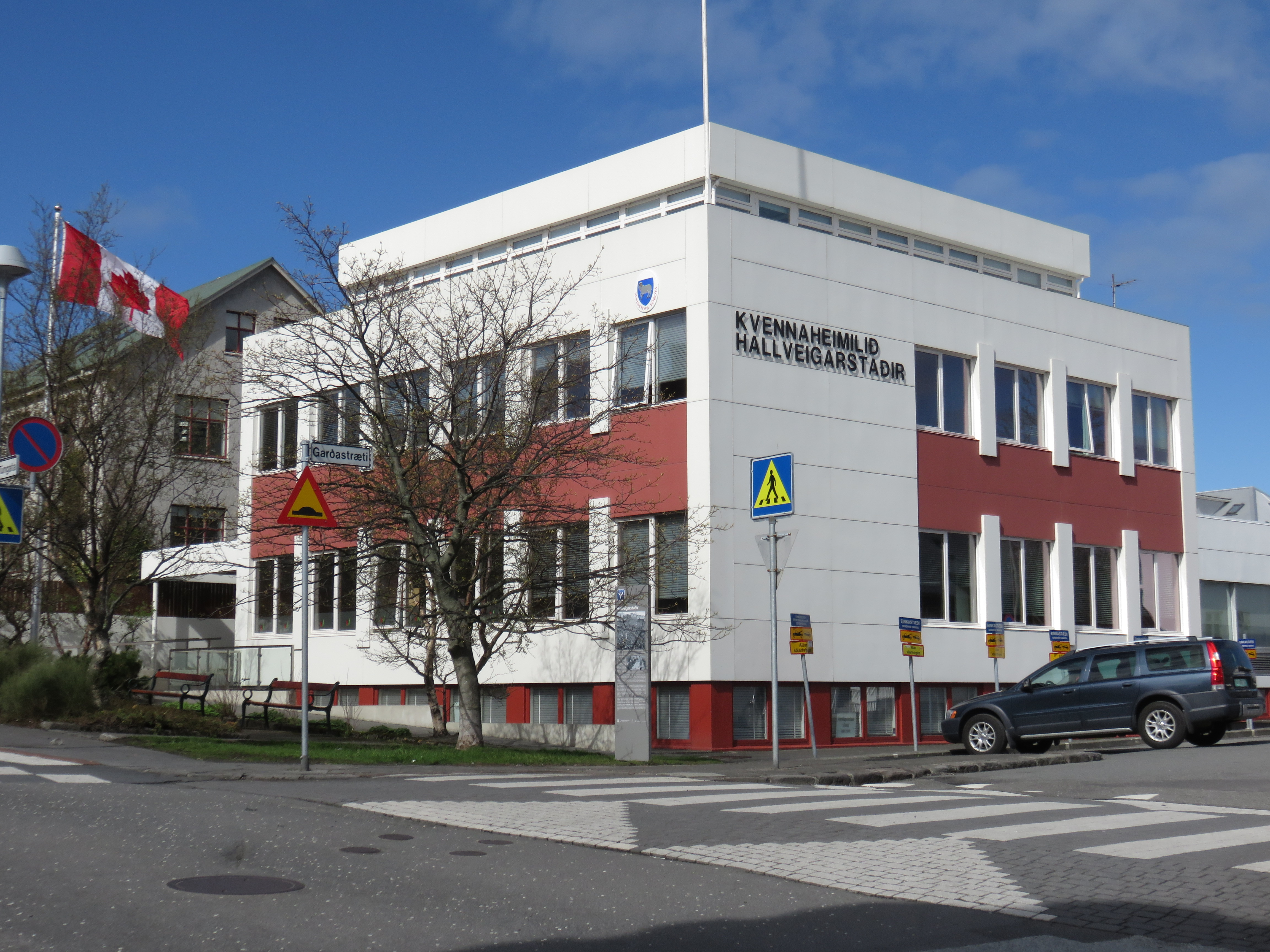 Canadian Embassy in Iceland in the Kvennaheimilið Hallveigarstaðir building in Reykjavík in 2018